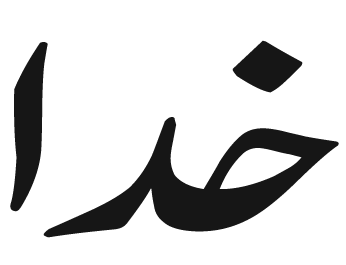 Calligraphy of the word خدا, means "God" in Urdu and Persian.